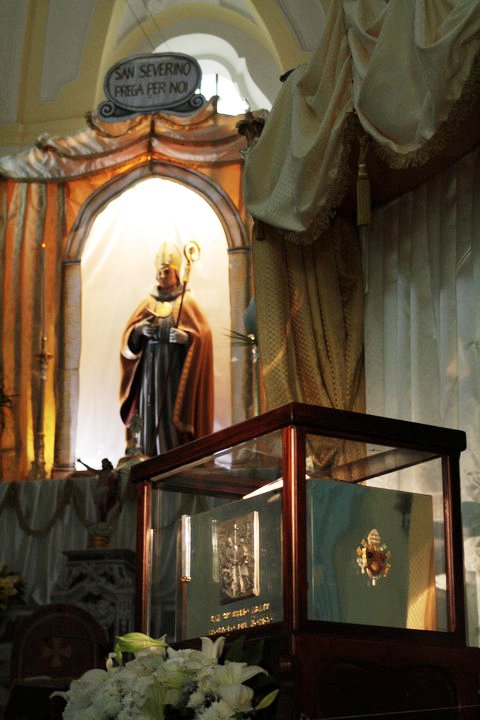 Peregrinatio del corpo di San Severino Abate a Striano - urna in chiesa parrocchiale - 17-18 aprile 2010